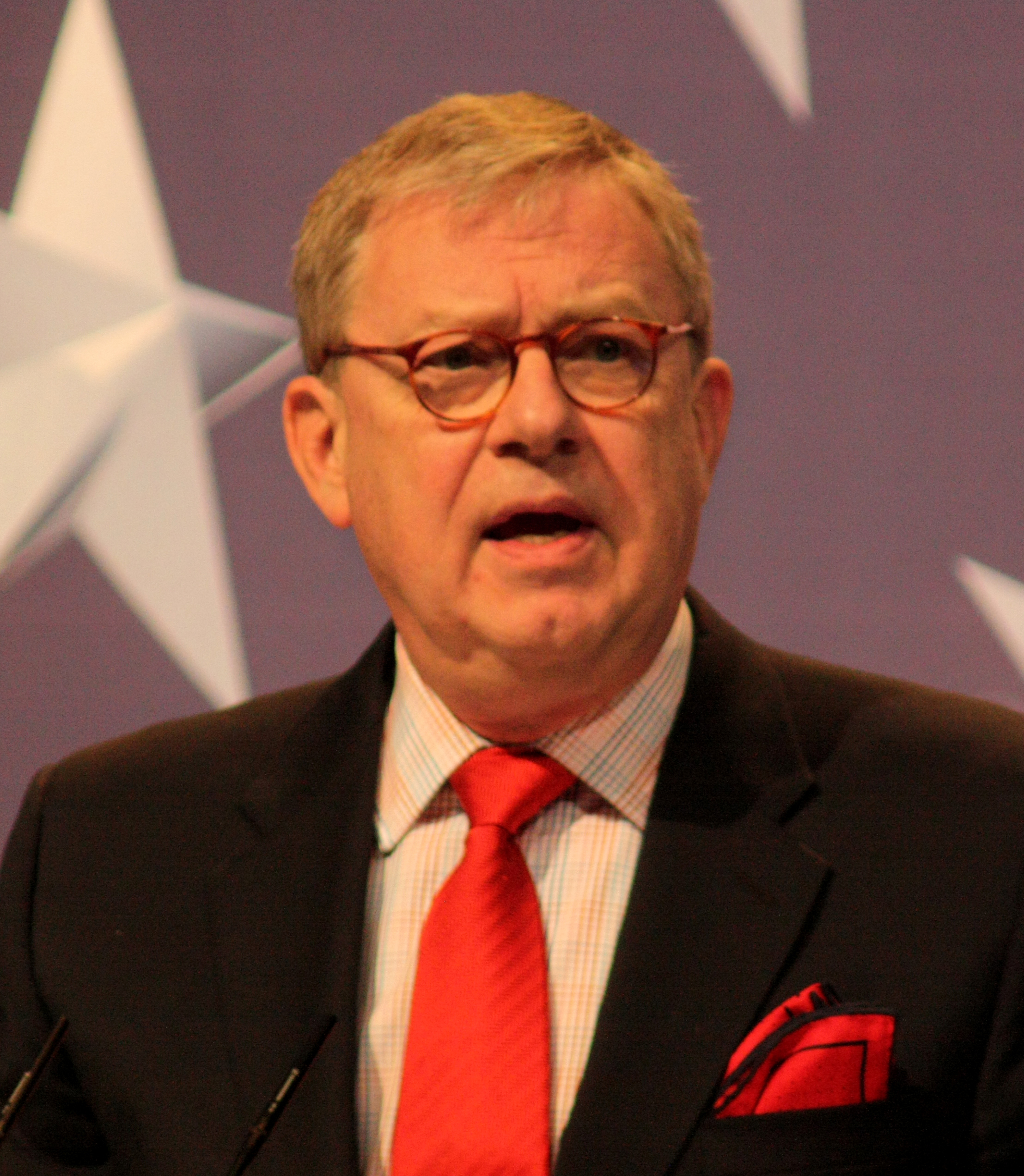 Michael Barone at CPAC in Washington, D.C..